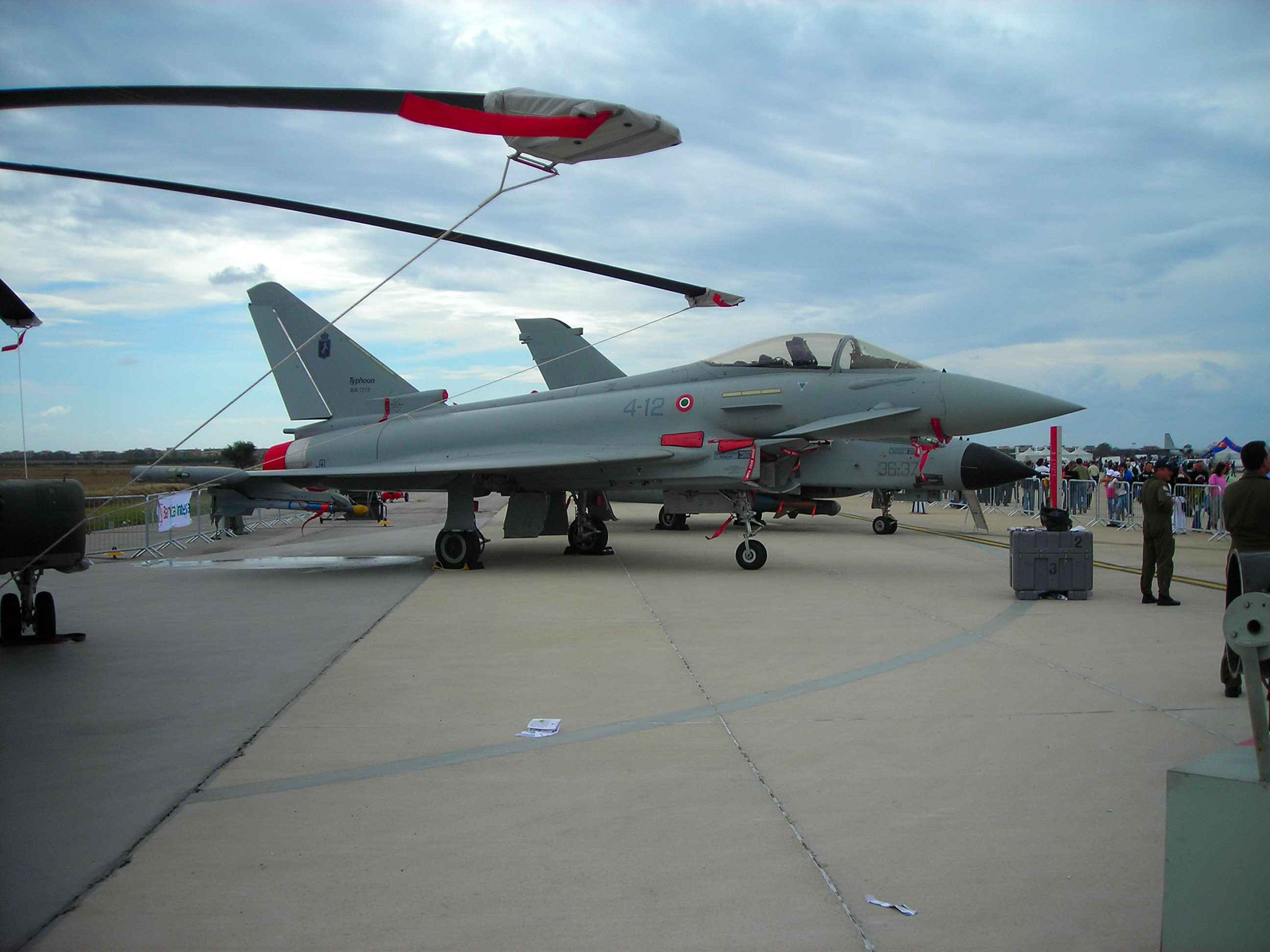 Italian Eurofighter Typhoon of "4° Stormo" (4th Wing). Picture taken during "Giornata Azzurra" 2006 (Italian Air Force airshow) at Pratica di Mare AFB, Italy.